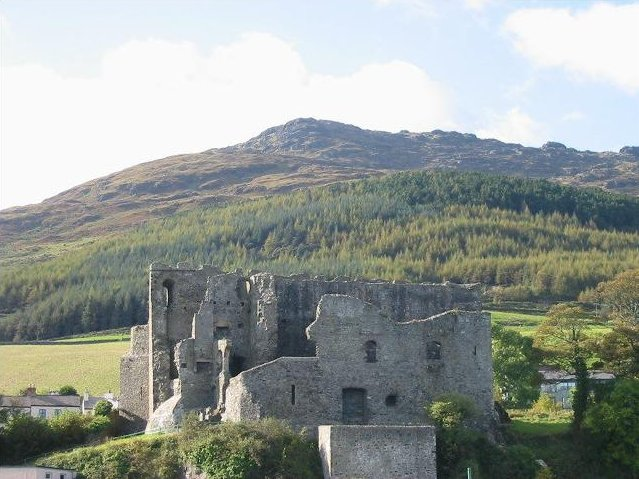 King John's Castle - Carlingford, Co. Louth, Ireland. King John was Richard the Lionhearts brother. Photo was talken on the north pier by Colm Rice on Sunday 18 July 2004. Slieve Foye can be seen in the background. With permission.